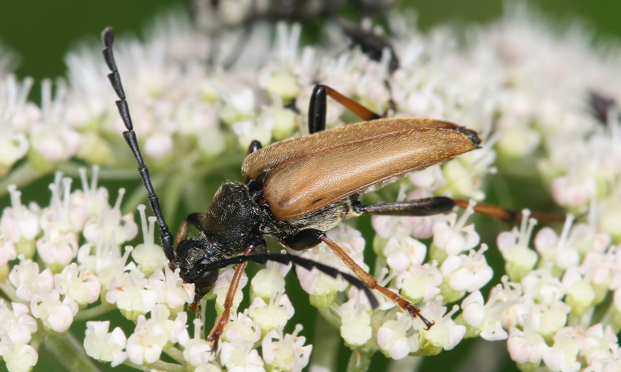 Description: The longhorn beetles or long-horned beetles (Cerambycidae) are a cosmopolitan family of beetles, typically characterized by extremely long antennae, which are often as long as or longer than the beetle's body. In various members of the family, however, the antennae are quite short (e.g., Parandra brunnea, figured below) and such species can only be recognized with difficulty from related beetle families such as Chrysomelidae. As shown a Stictoleptura_rubra_male